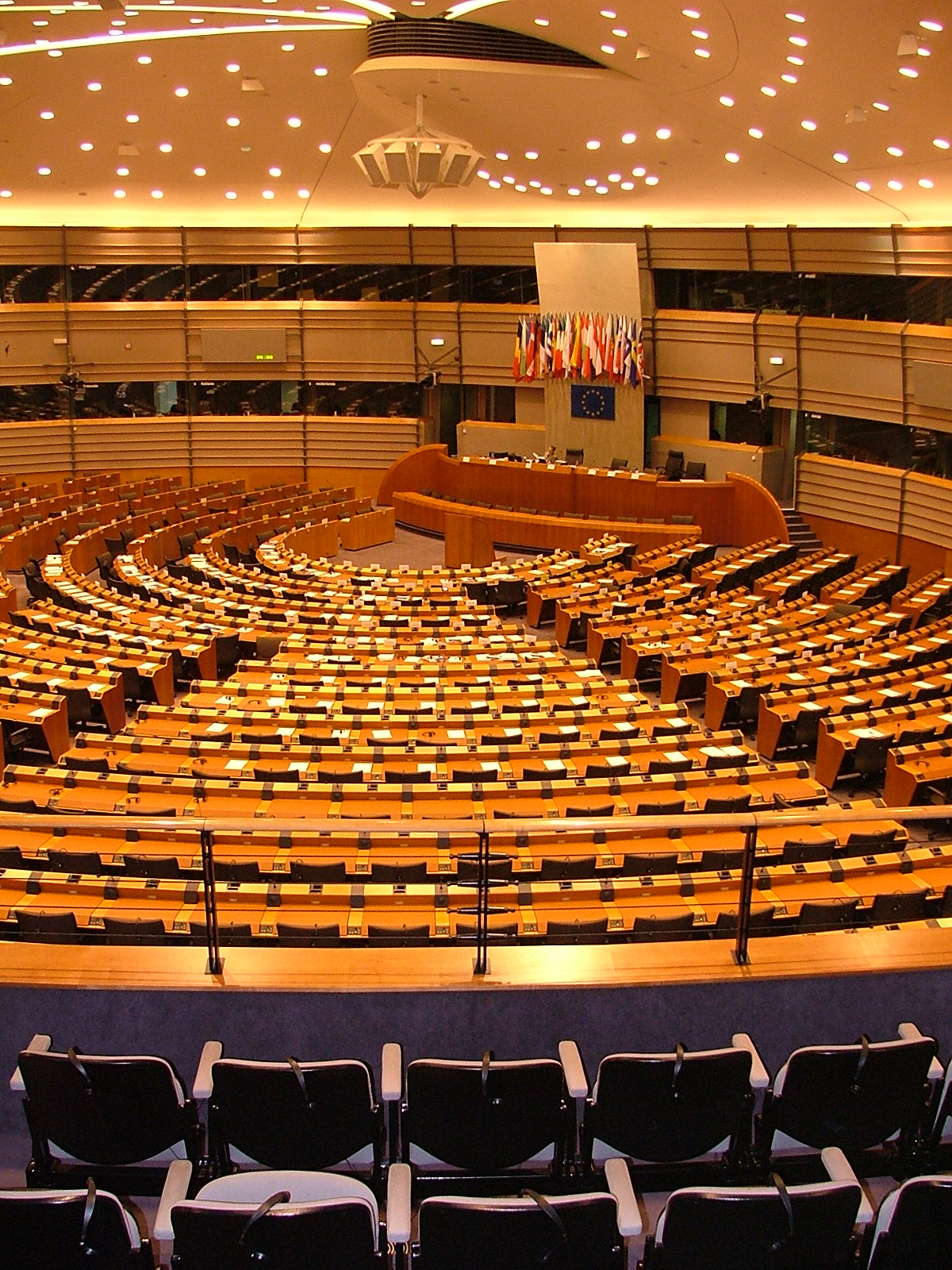 Belgium, Bruxelles - Brussel, European Parliament. The hemicycle empty.